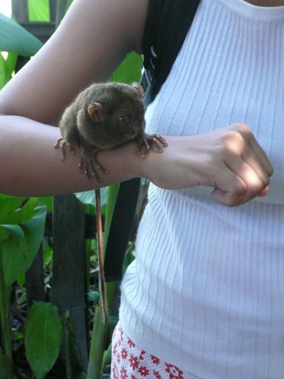 Carlito syrichta, Bohol, Philippines